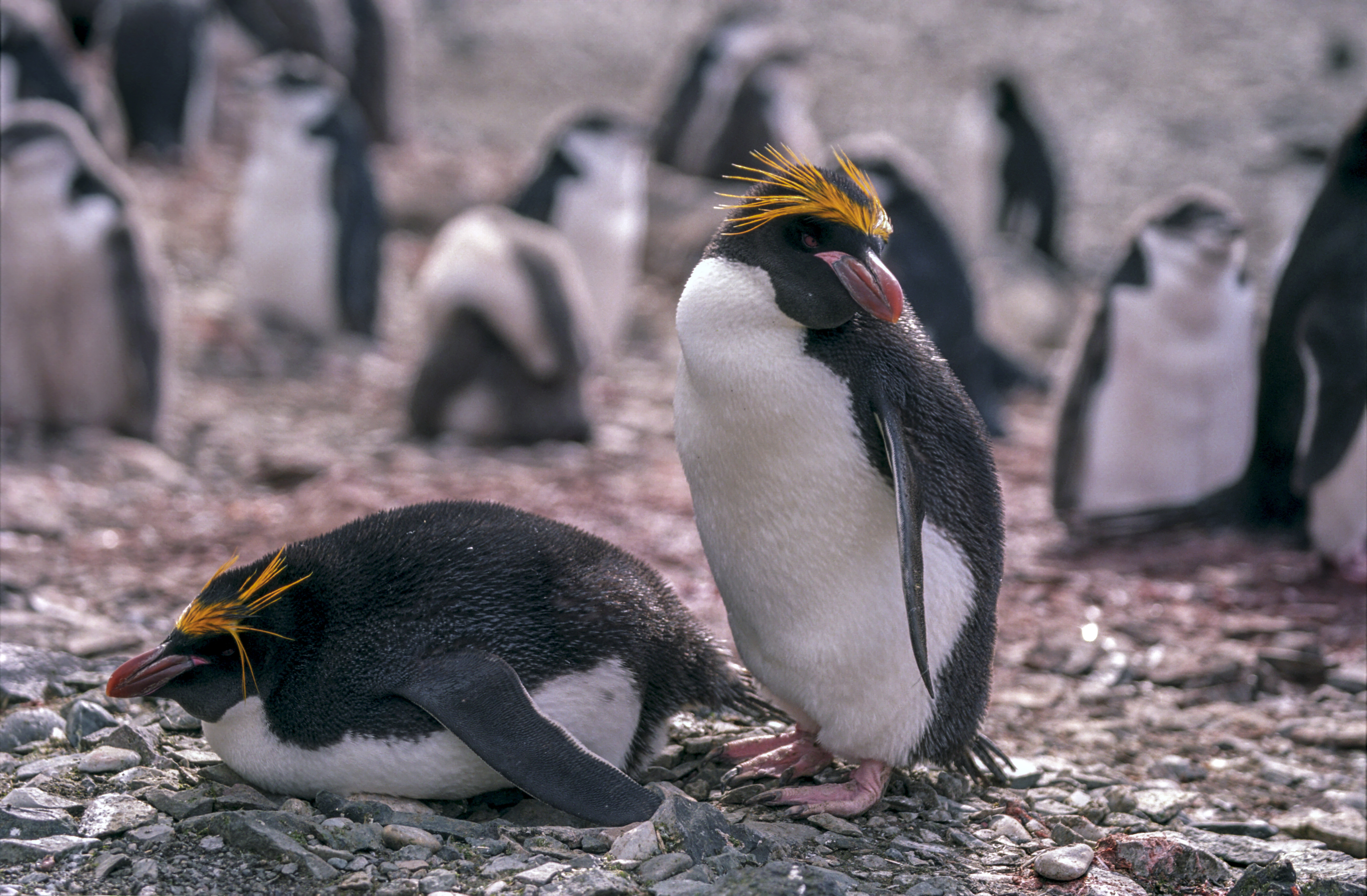 Macaroni Penguin, Hannah Point, Livingston Island: 62°39'S, 60°36'W, Antarctic Peninsula